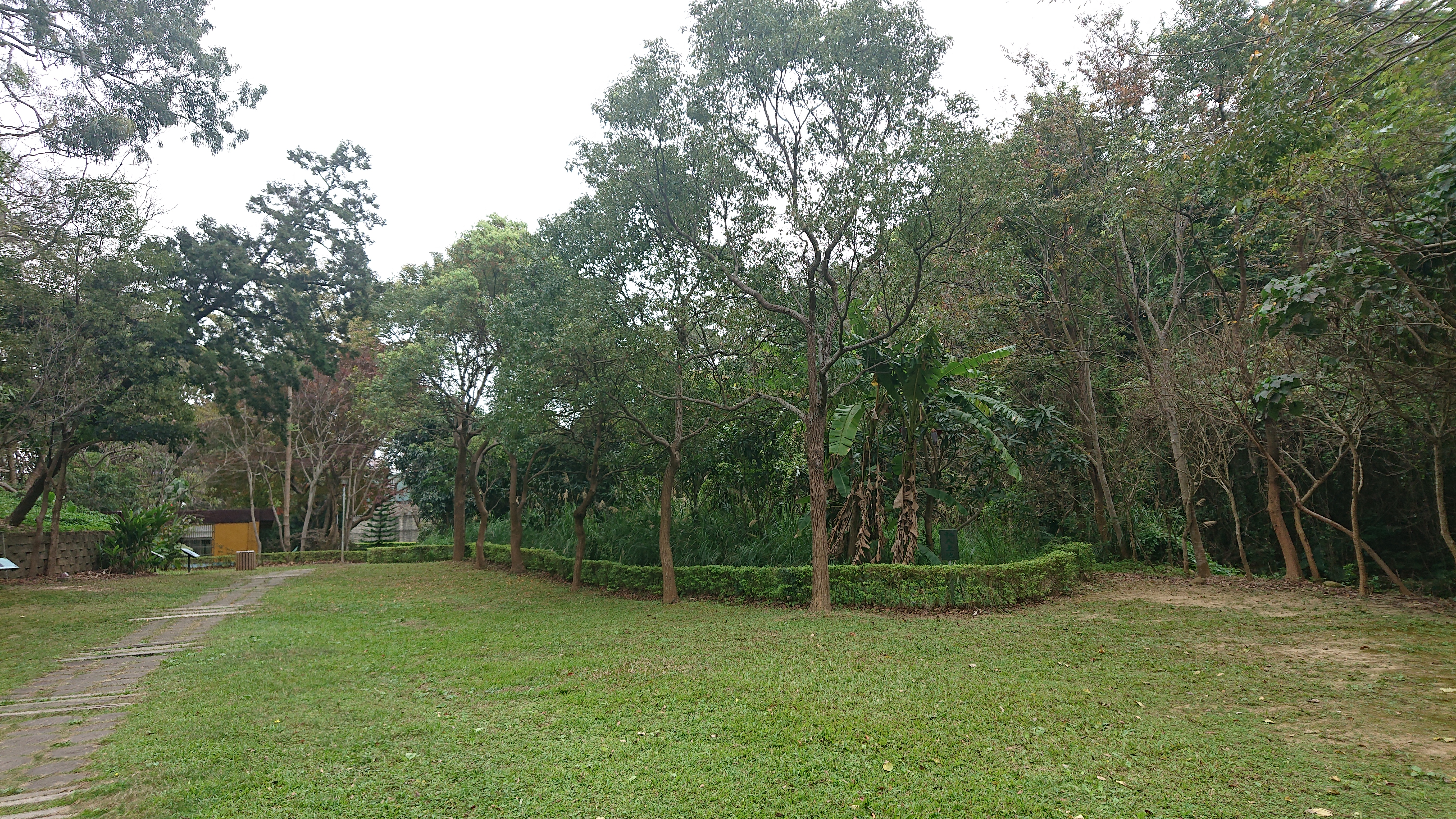 Hisnchu City Gaofeng Botanical Garden of the landscape.